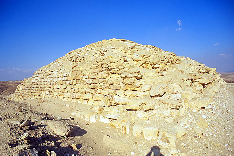 West and south sides of the pyramid, Sila (Seila), el-Fayyum, Egypt